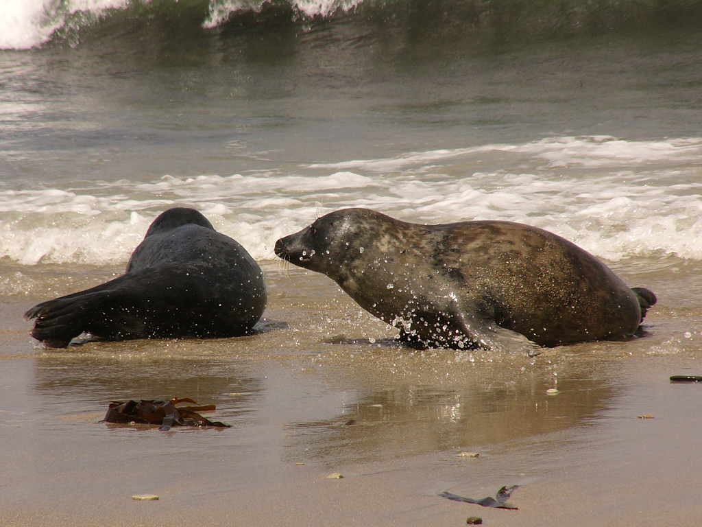 Grey Seal